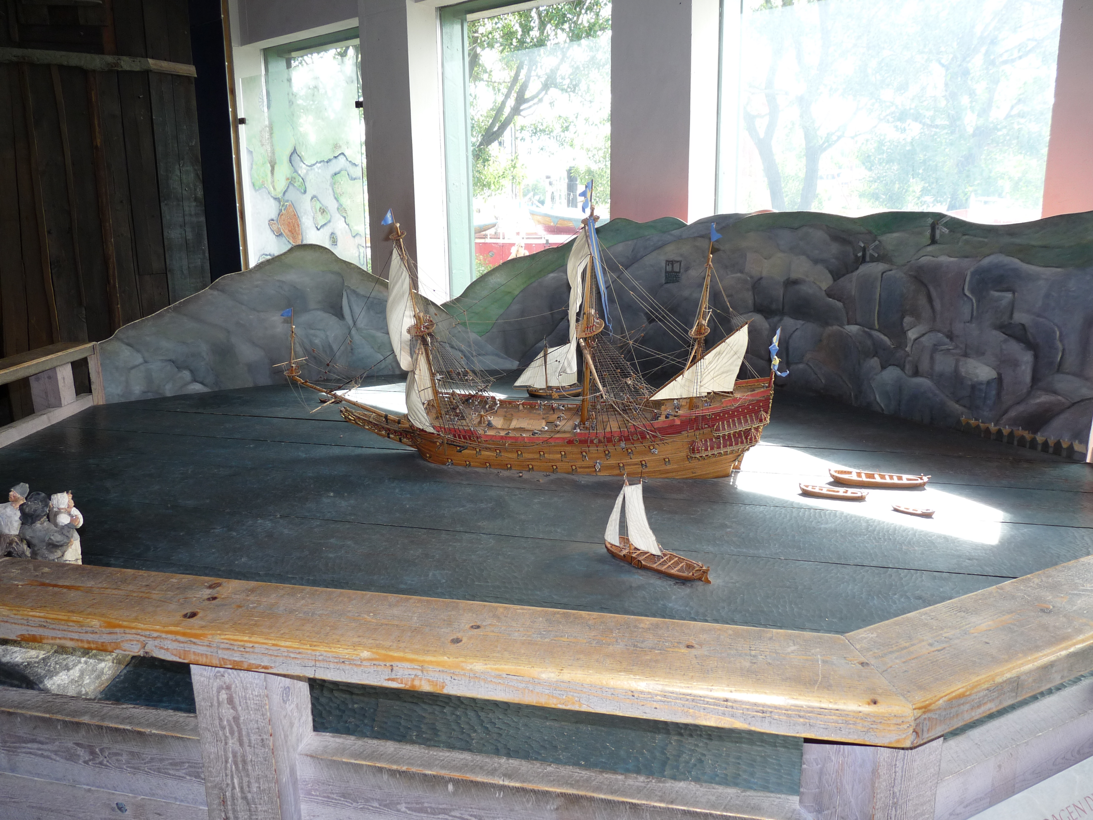 Vasa ship goes by inclined plane